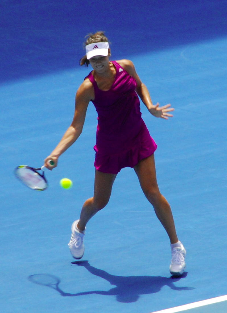 Ana Ivanović at 2009 Australian Open, Melbourne, Australia.